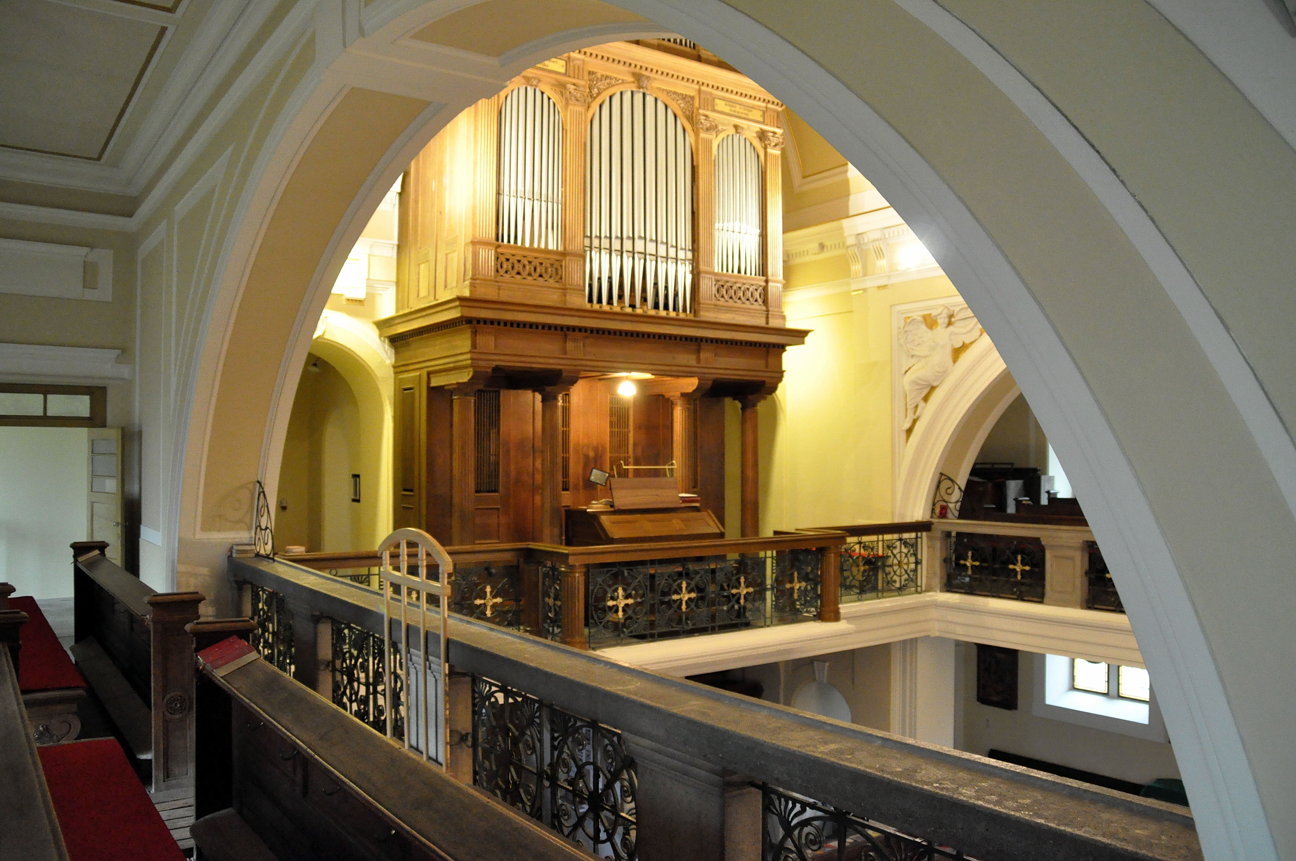 Mauracher Eisenbarth organ in the Roman Catholic parish church, municipality Pörtschach am Wörther See, district Klagenfurt Land, Carinthia, Austria, EU